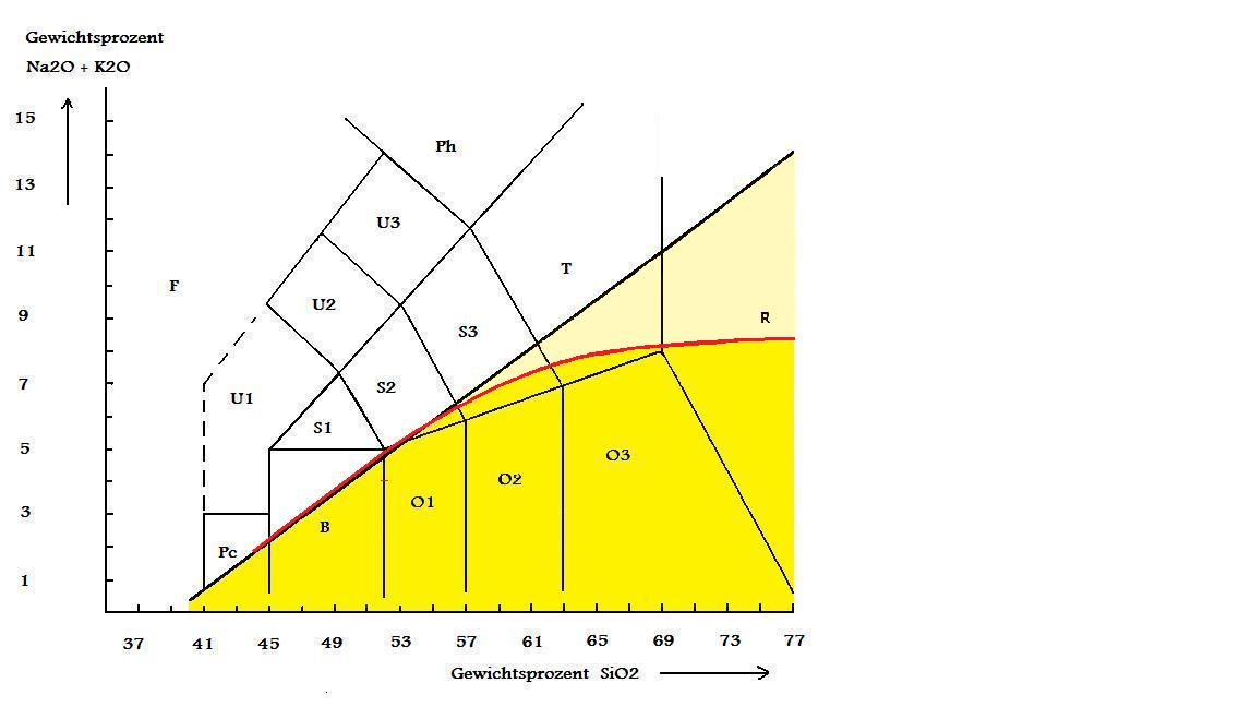 TAS-diagram featuring Miyashiro's subalkaline field